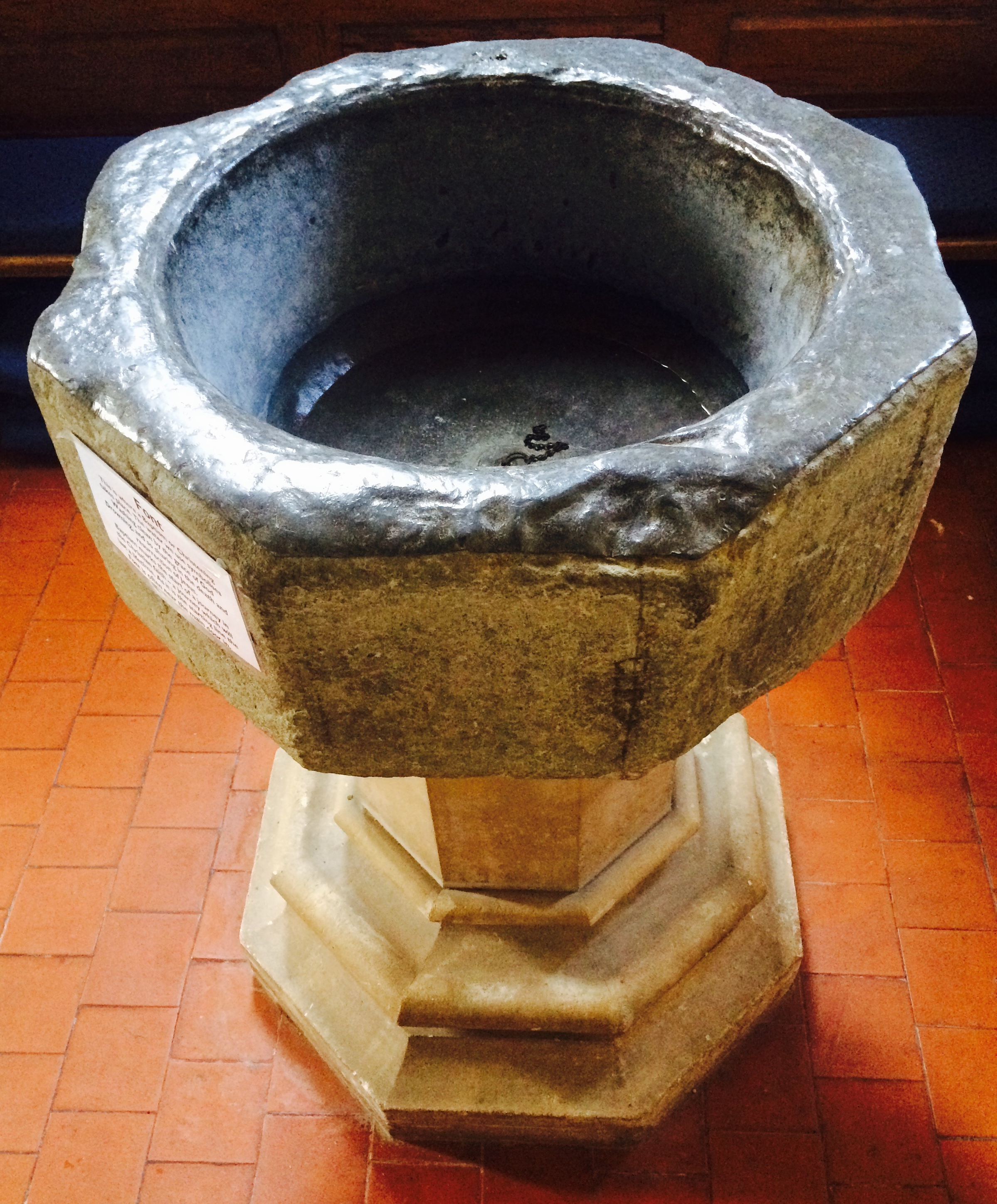 Baptismal font in the church of St Mary the Virgin, Hillborough, Reculver parish, Kent: probably from the medieval chapel of All Saints at Shuart, St Nicholas-at-Wade, Isle of Thanet. The font is lined with lead, and contains water used in a baptism immediately prior to being photographed. The plinth is 19th-century work.